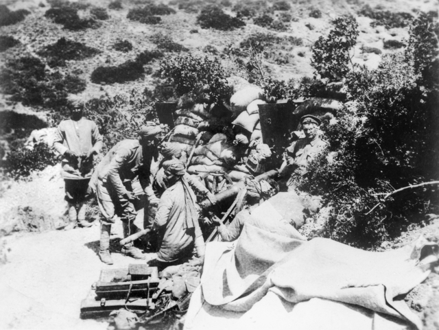 An Indian Mountain Battery in action at the back of Quinn's Post at Anzac Cove, Gallipoli, during World War I.